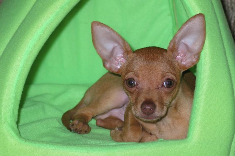 (Perro Chihuahua, photo taken by Diego Serebrisky)